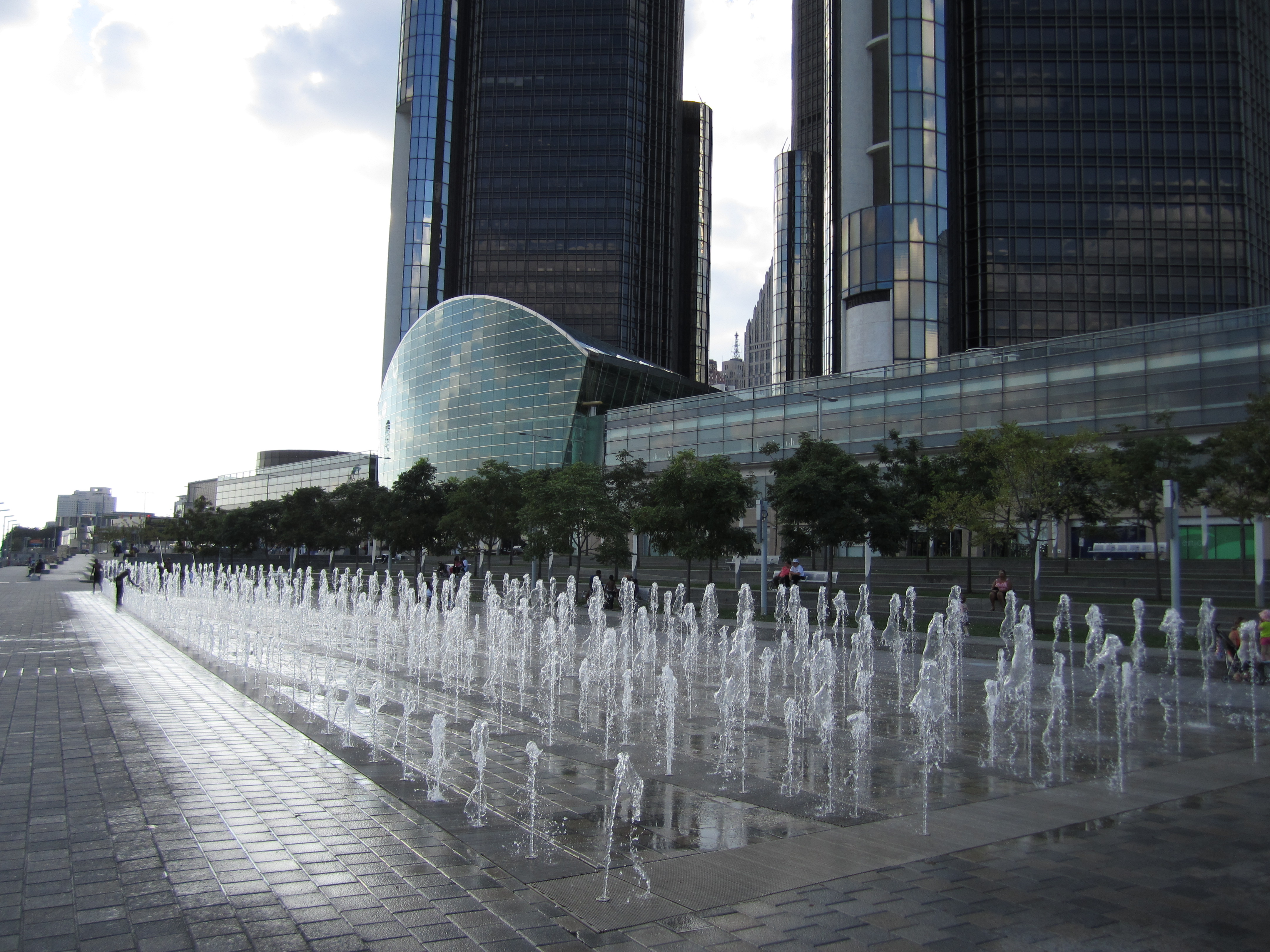 Fountain at the Detroit International Riverfront. The Renaissance Center section.. This is a warm-weather photo of the detail of the General Motors Riverfront Plaza, fountain, & Promenade.